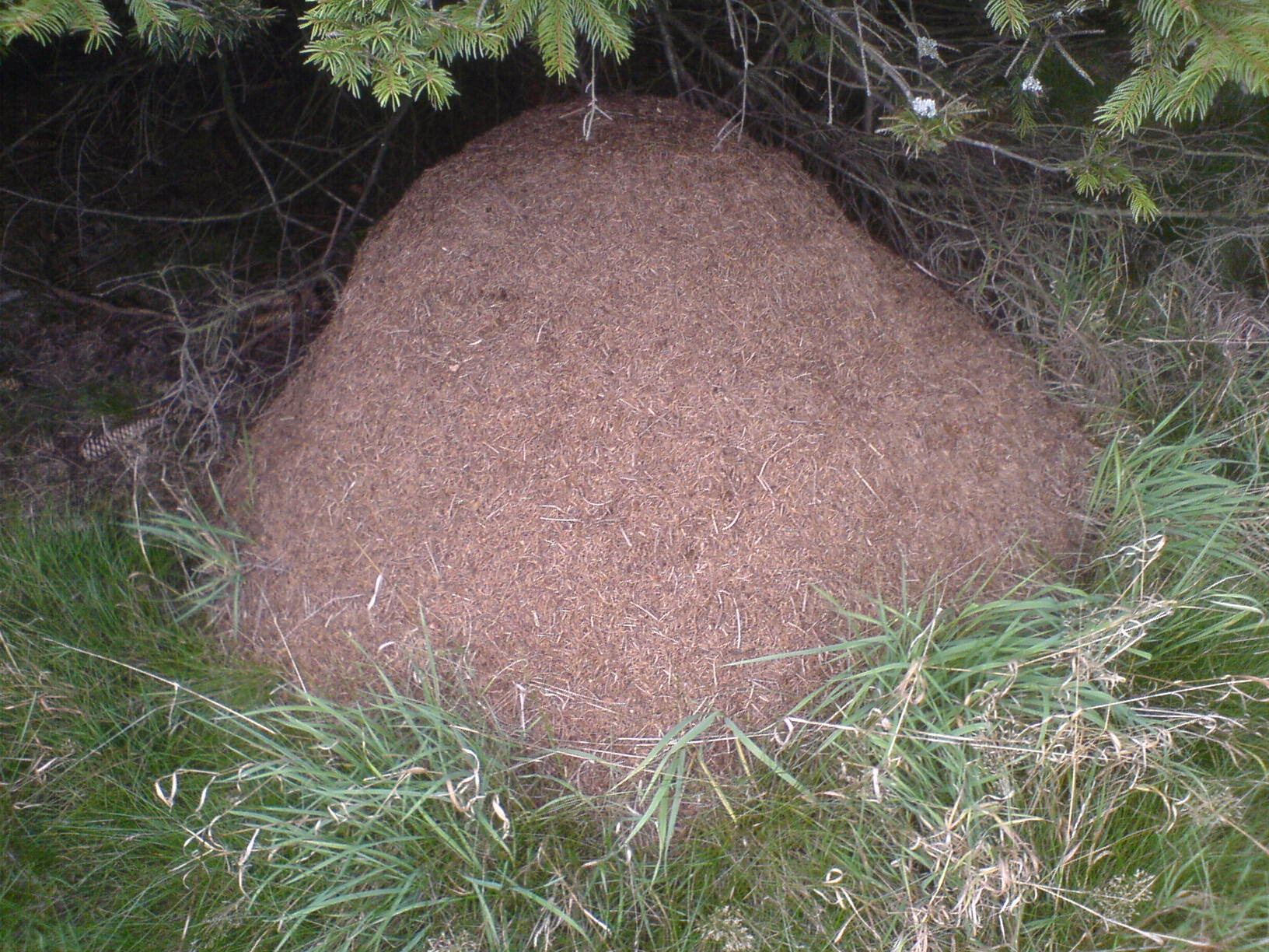 Ant-hill